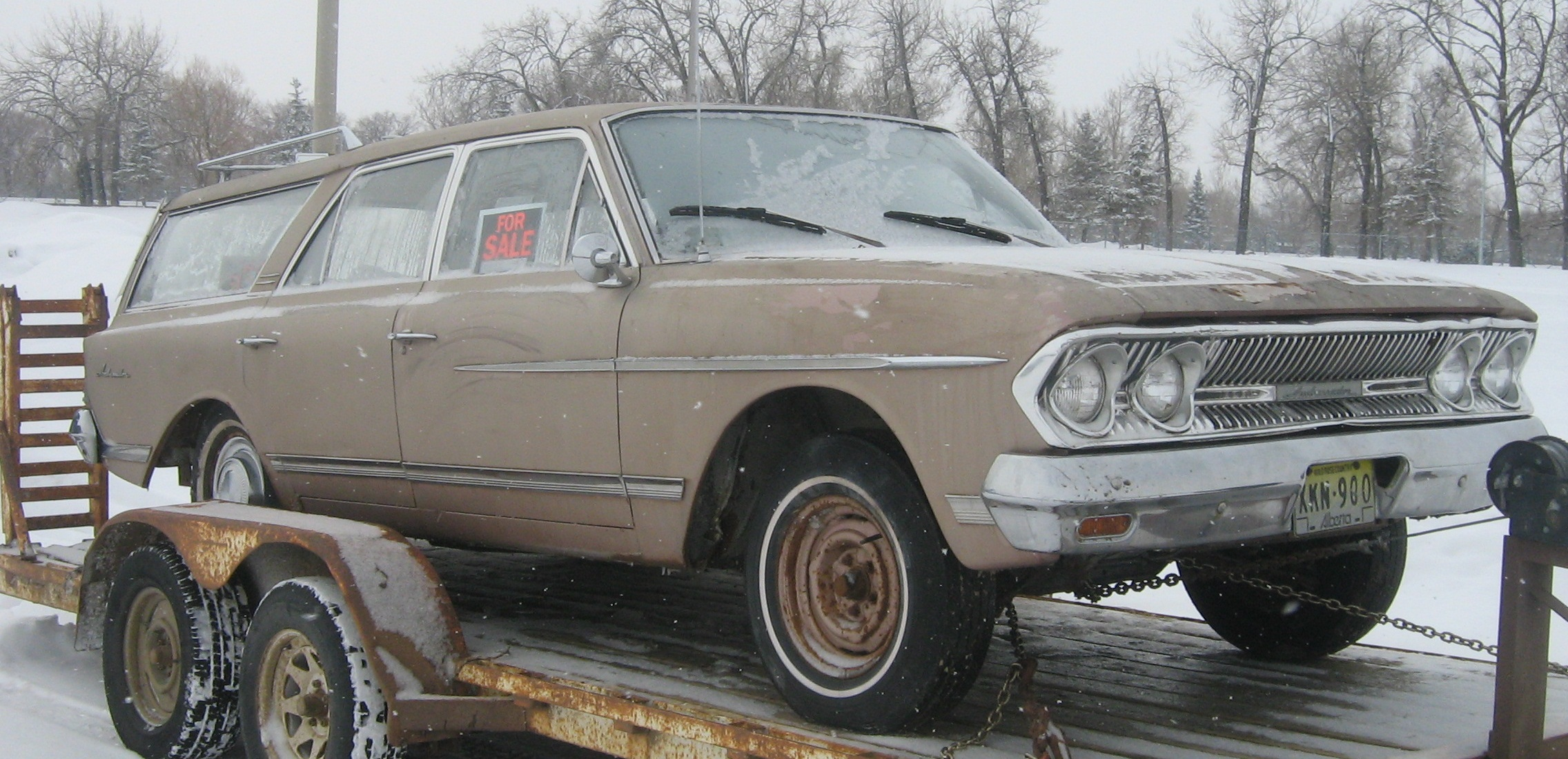 1963 Rambler Ambassador 880 Cross Country Wagon